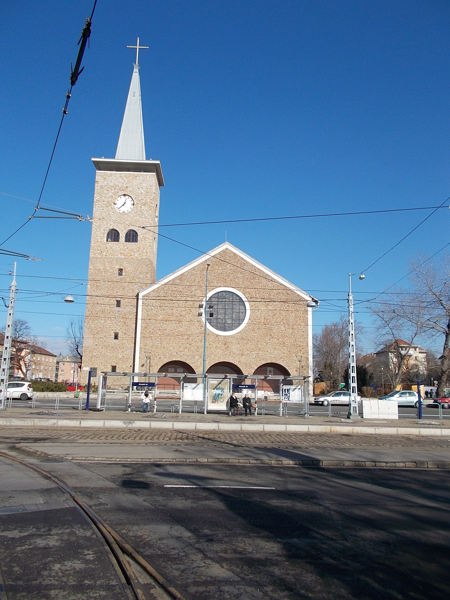 Saint Anthony of Padua Church from Zugló tram depot gate. - Bosnyák Square, Alsórákos neighborhood, Budapest District XIV.